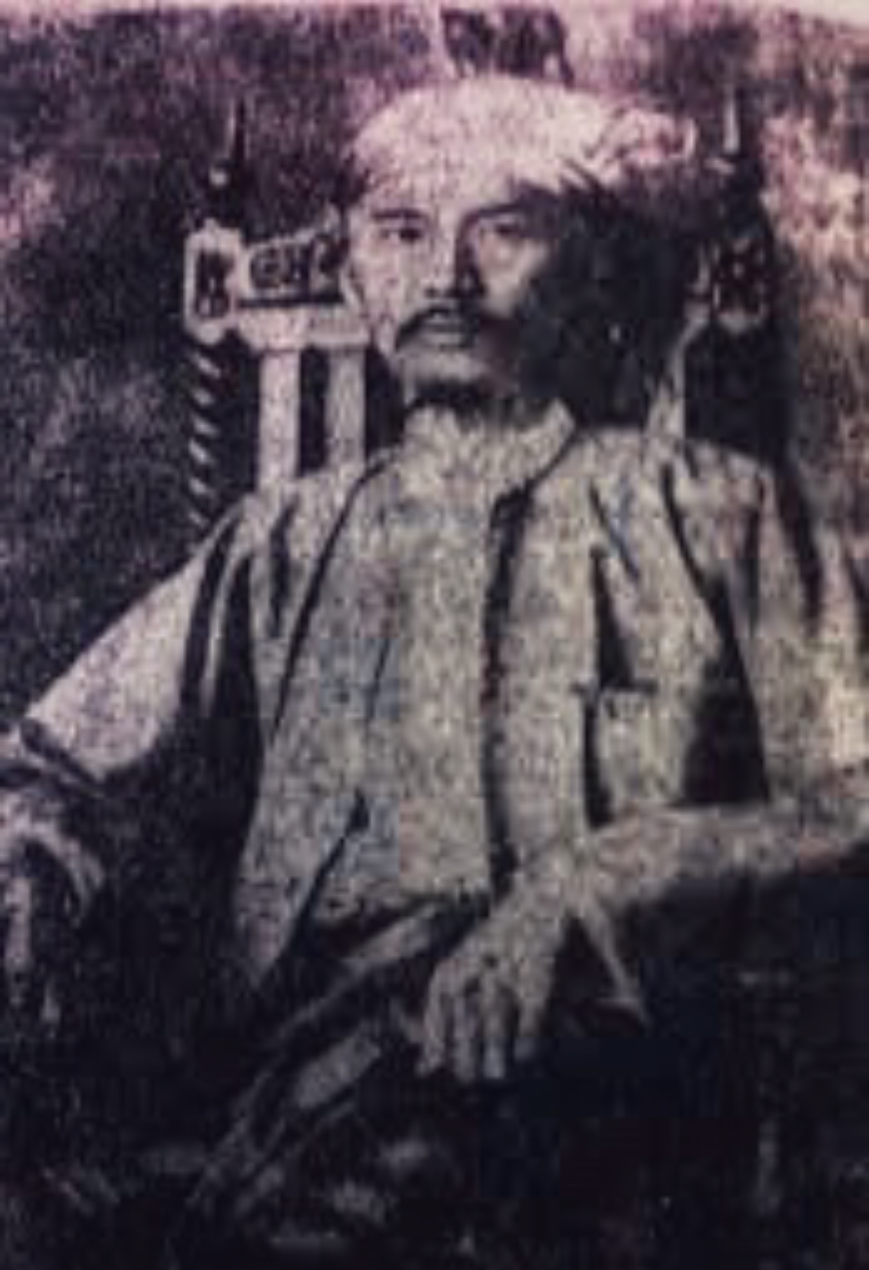 Lanmadaw Phoe Toke (Burmese: လမ်းမတော်ဖိုးတုတ်; 1898 – 26 December 1944) was a respected Burmese gangster who influenced in Rangoon during the colonial era.